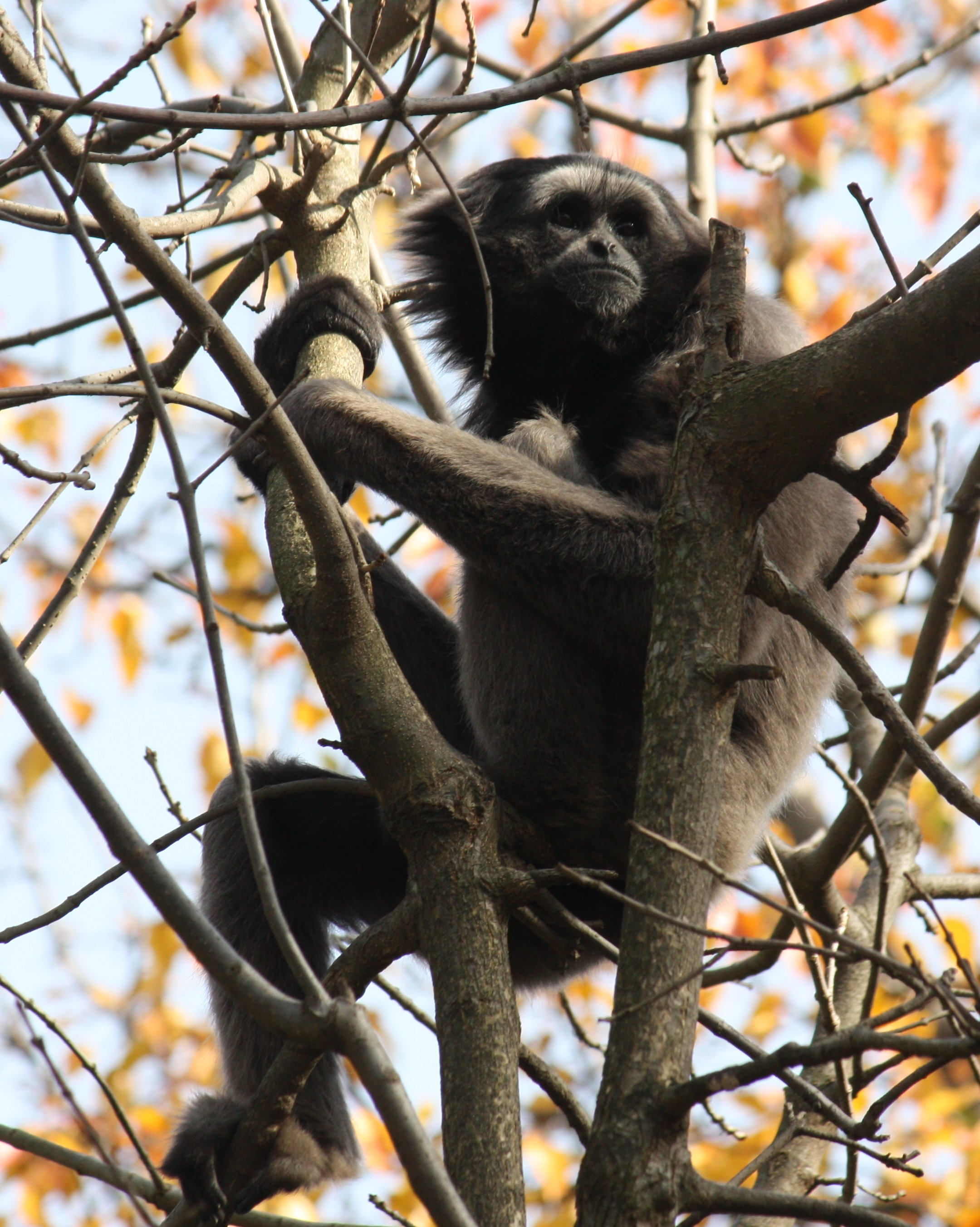 Muellers Gibbon Hylobates muelleri at Cincinnati Zoo